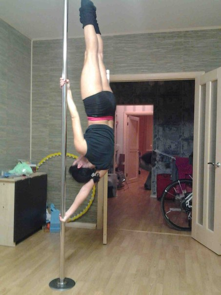 Human flag (vertical).